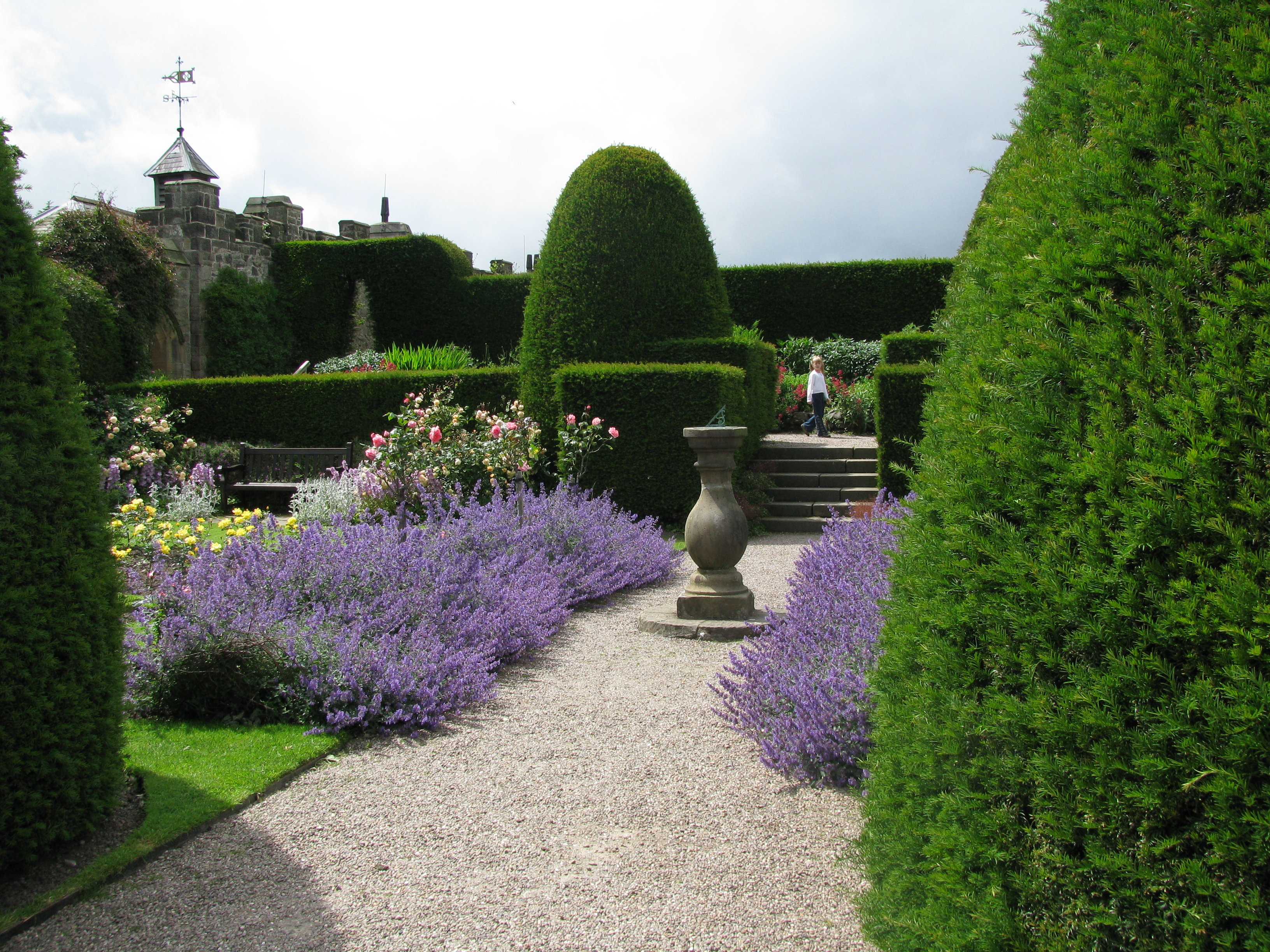 Garden of Chirk Castle, Wales, UK.